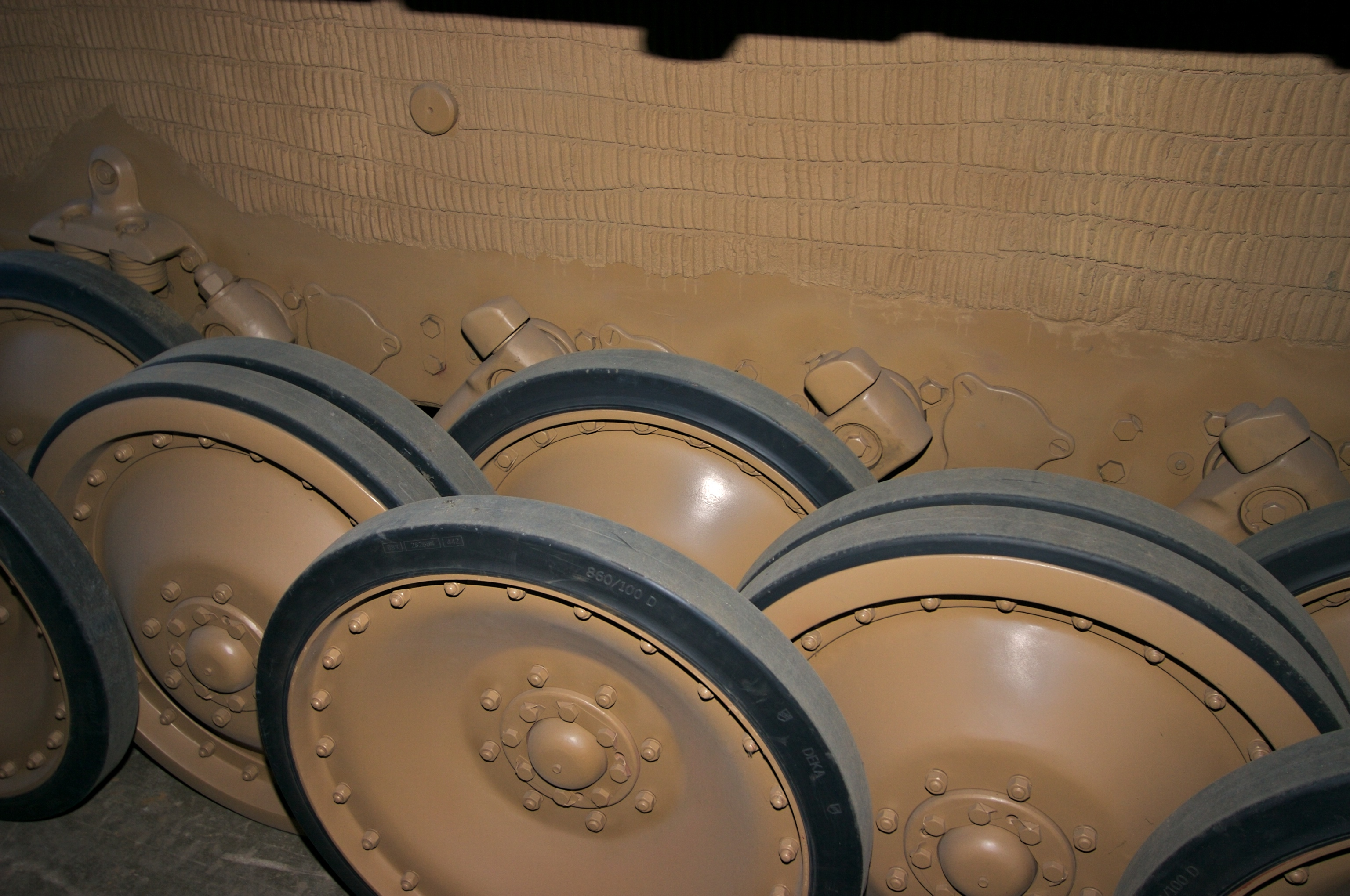 Road Wheels from the suspension of a German Panzerkampfwagen V Panther tank. The tracks have been removed for restoration work.